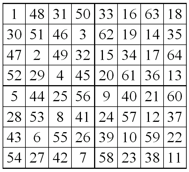 The knight's tour solution - by Euler